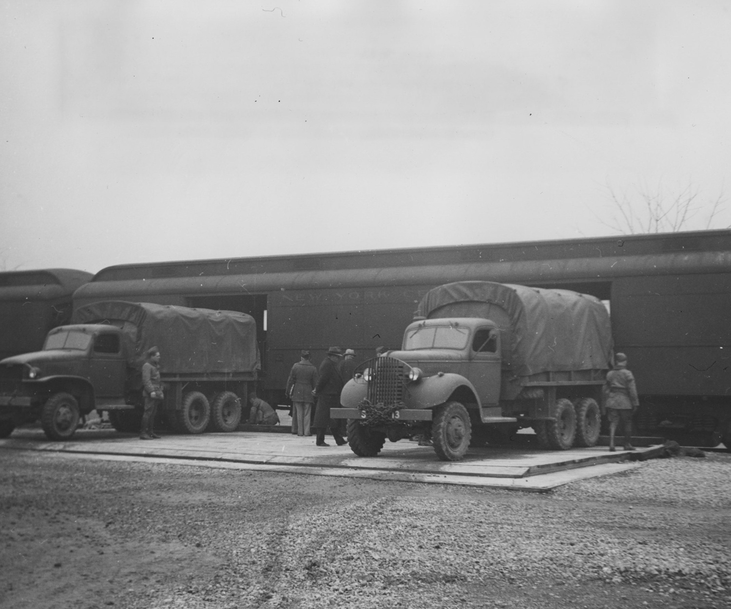 Gold trains at Fort Knox, Kentucky are preparing to unload bullion from the train cars into the trucks. The soldier kneeling at the rear of the truck at left is adjusting the brace. The gold is to be sent to the United States Bullion Depository. Courtesy United States Postal Service